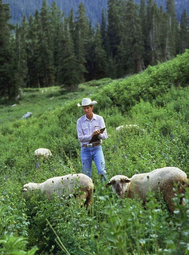 Sheep in mountain pasture from Sheep in mountain pasture thumbnail Image Number K4378-10 Since sheep are less affected by larkspur, they may be used to reduce the amount of it in mountain pastures before cattle are allowed to graze. In this study, range scientist Michael Ralphs records the sheep's plant preferences.